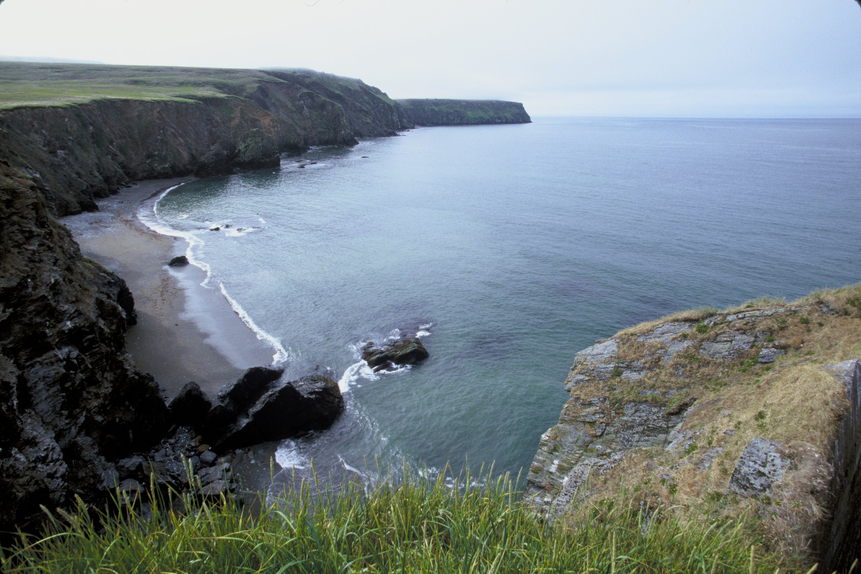 Coastline, Togiak National Wildlife Refuge